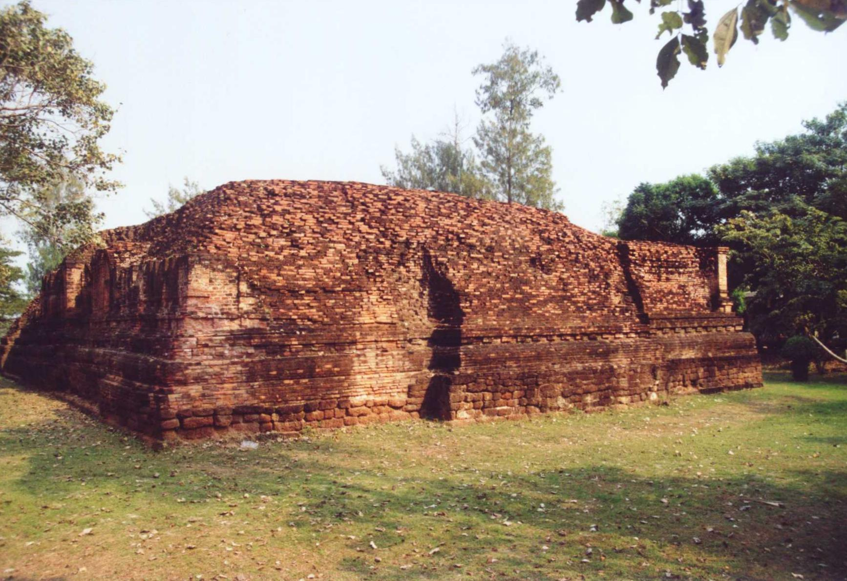 Ku Bua, Ratchaburi Province, western Thailand. Remains of a stupa dating back to the Dvaravati period. Photo taken by User:Ahoerstemeier in January 2006.